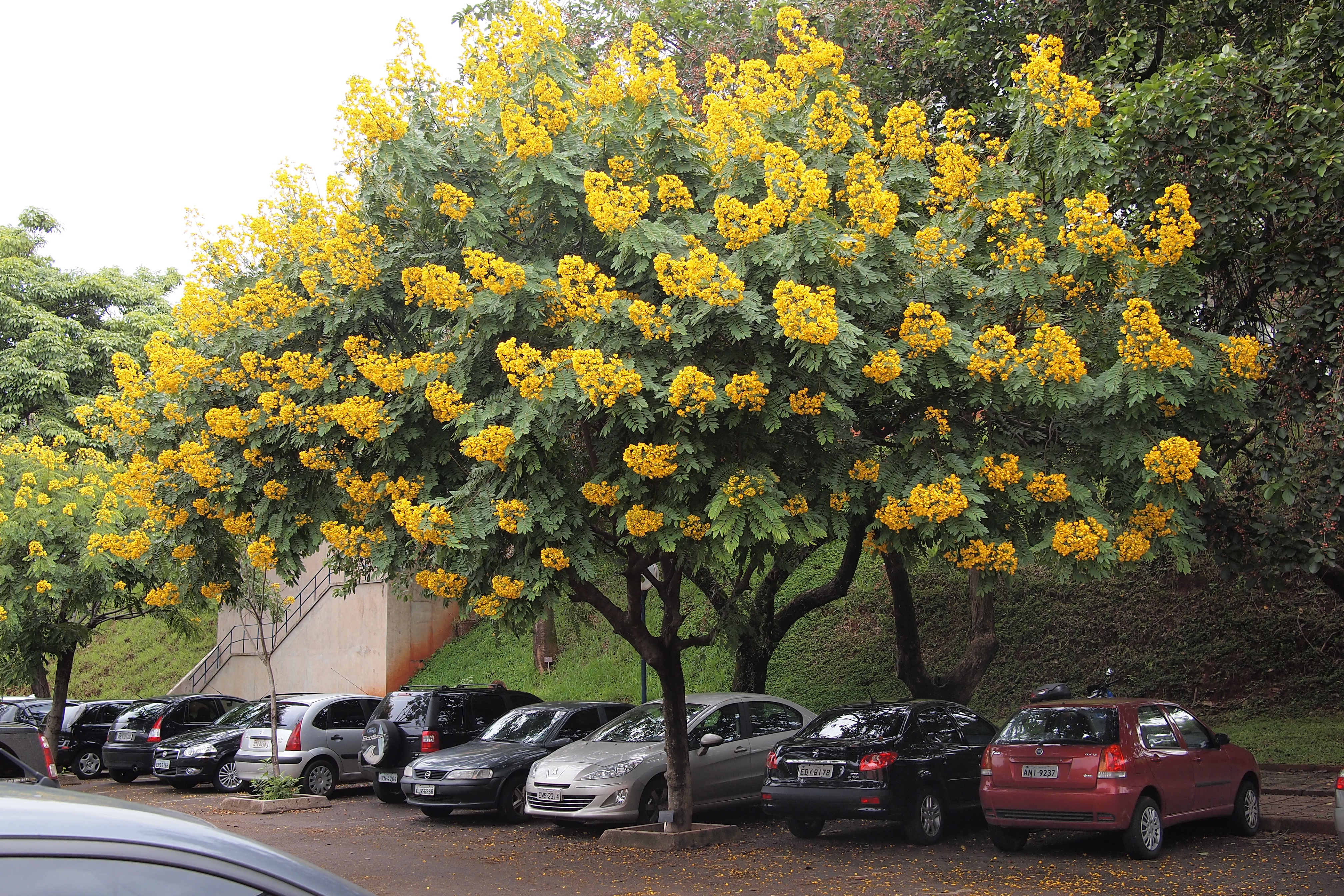 Senna spectabilis specimen.